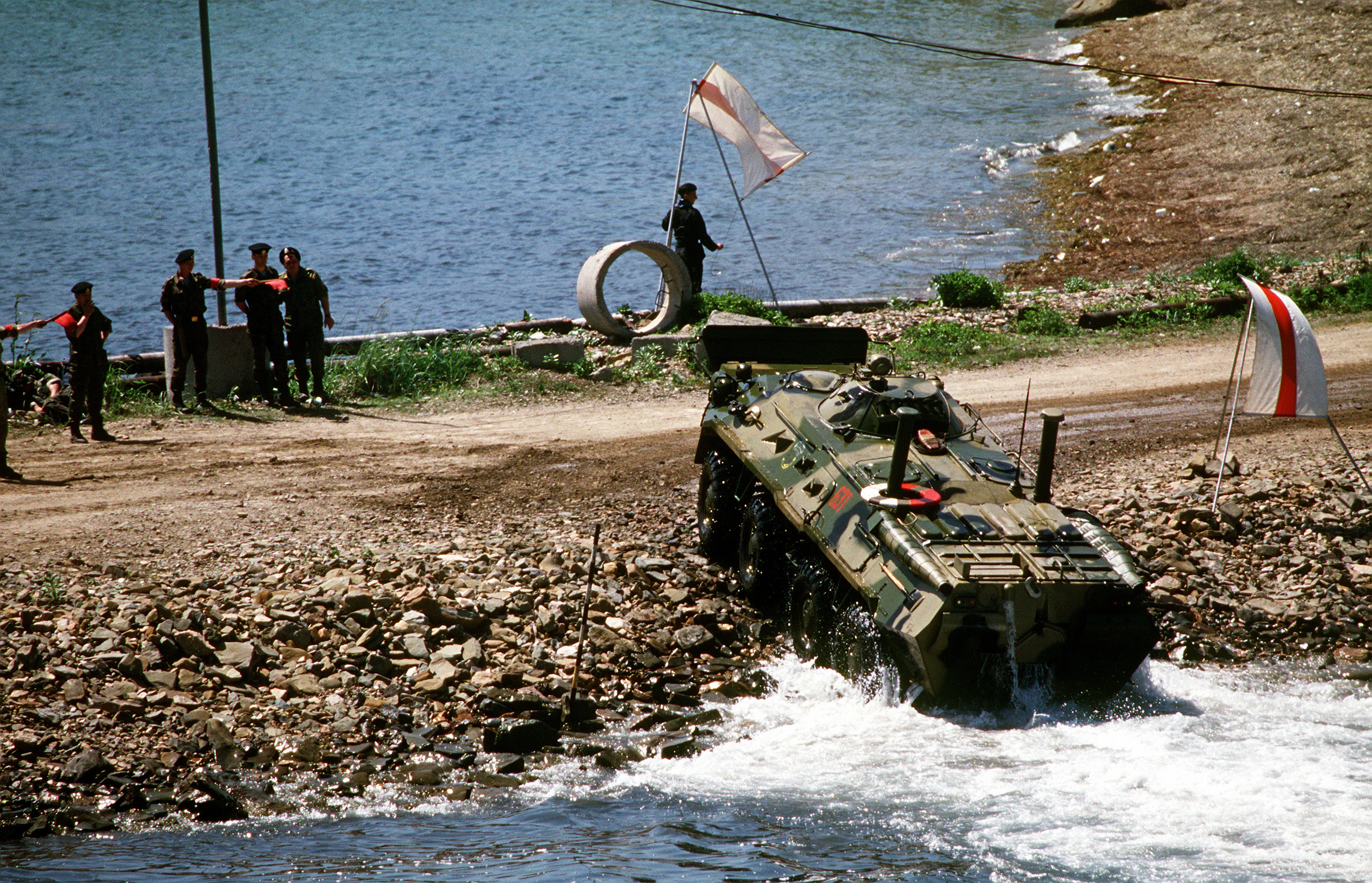 After cross training operations were completed, a Russian BTR-80 APC exits the water onto an isolated beach near Vladivostok. Russian practice drills were concluded during the combined American-Russian disaster relief exercise.